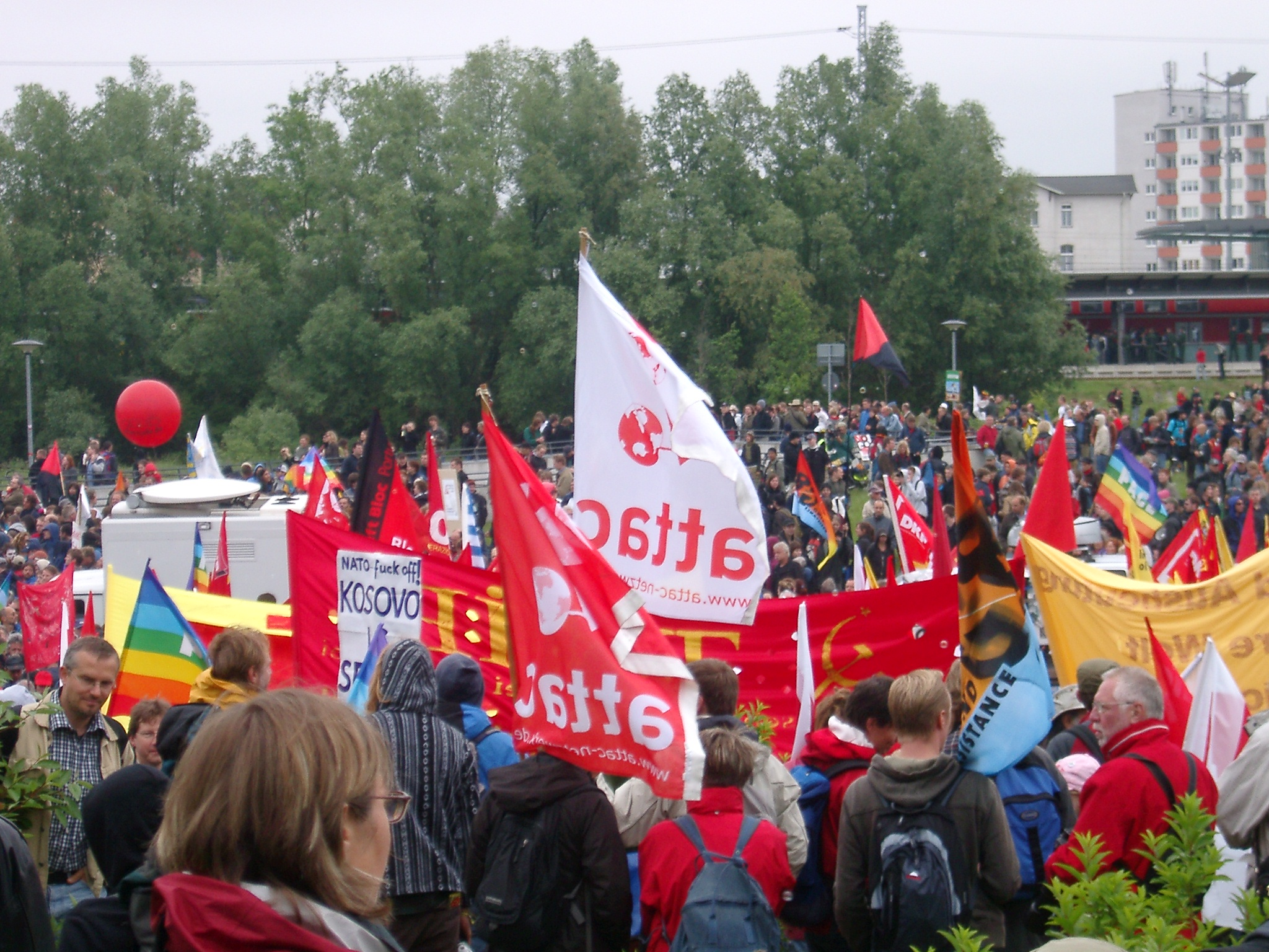 Rostock anti G8 demonstration, initial demo assembly at main station